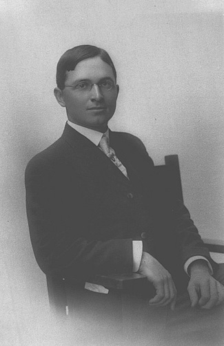 Portrait of Harry S. Truman. Formal portrait of Harry S. Truman at about the age of 24. He is seated in a chair wearing a suit. This was taken at the same time as photo 79-21; 9.5x6.5 inches From: Truman house Accession number: 82-152